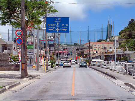 Inamine Crossroads